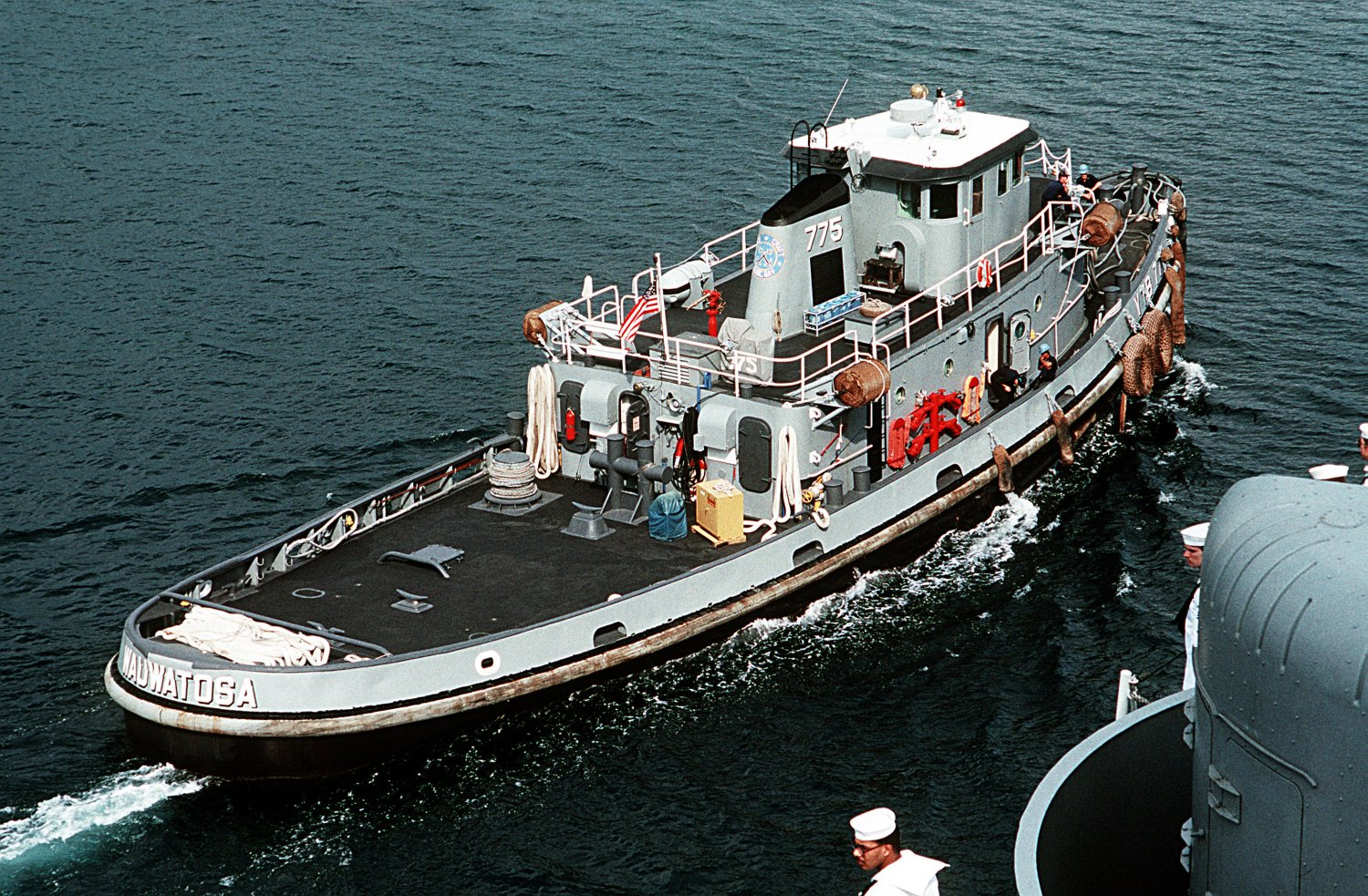 Wauwatosa (YTB-775) entering port at Naval Station Subic Bay, Luzon Island, Republic of the Philippines, 8 December 1991. DVIC photo # DN-ST-92-02822 by ENS J.R. Hilton, a US Navy photo now in the collections of the Defense Visual Information Center